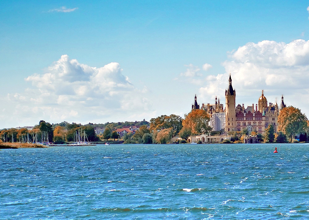 Schwerin Castle seen from the Schweriner See (Lake Schwerin). There are boat riding tours for just some Euro, you can also rent a boat yourself.